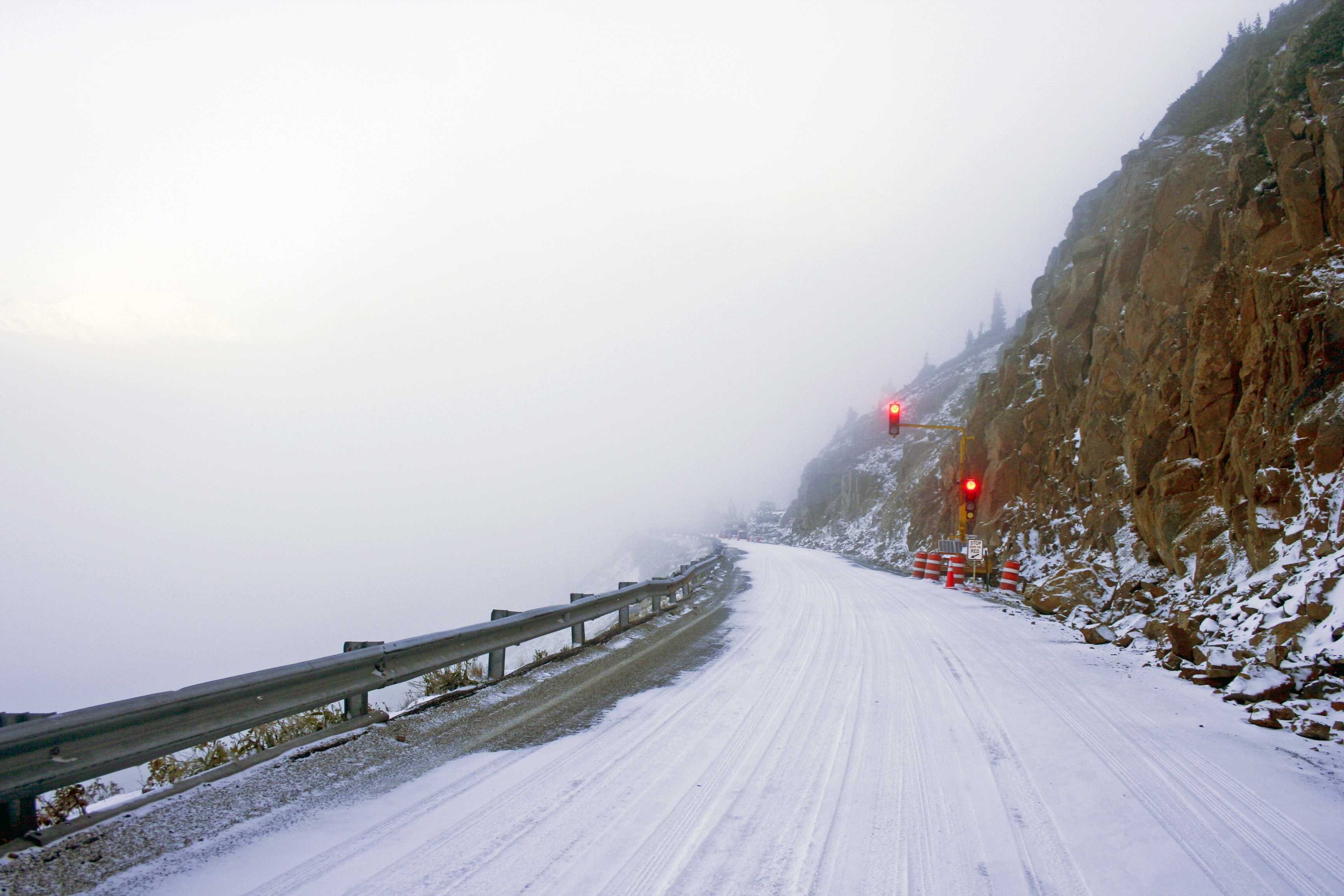 View westbound on Colorado State Highway 82 west of Independence Pass during a late September snowstorm